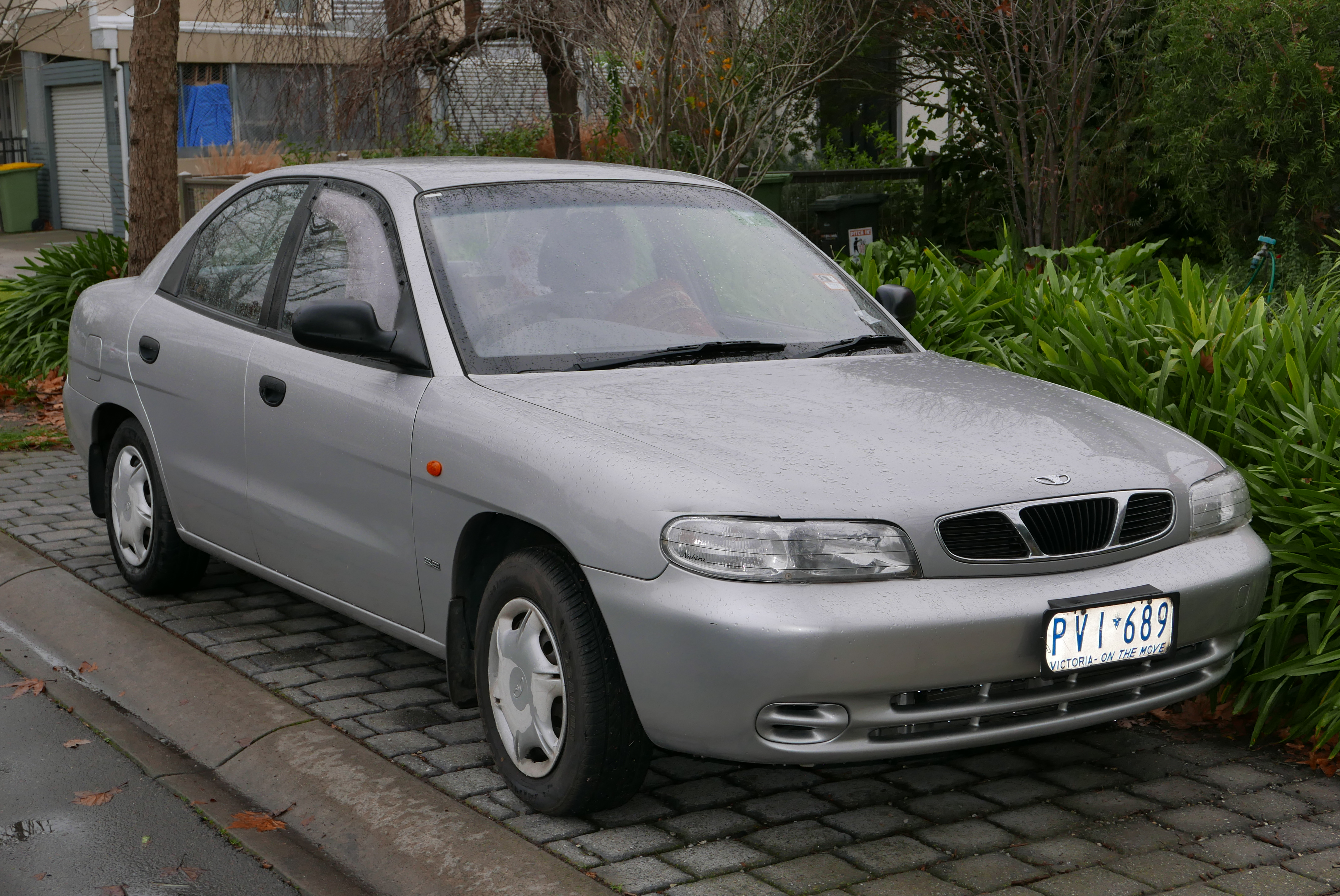 1999 Daewoo Nubira (J100) SE sedan. Photographed in Alphington, Victoria, Australia. Vehicle registration enquiry results Jurisdiction Victoria Registration PVI689 Chassis code KLAJA696EXK256008 Engine code A16DMS136004B Compliance date 1999-09 Year of manufacture 1999